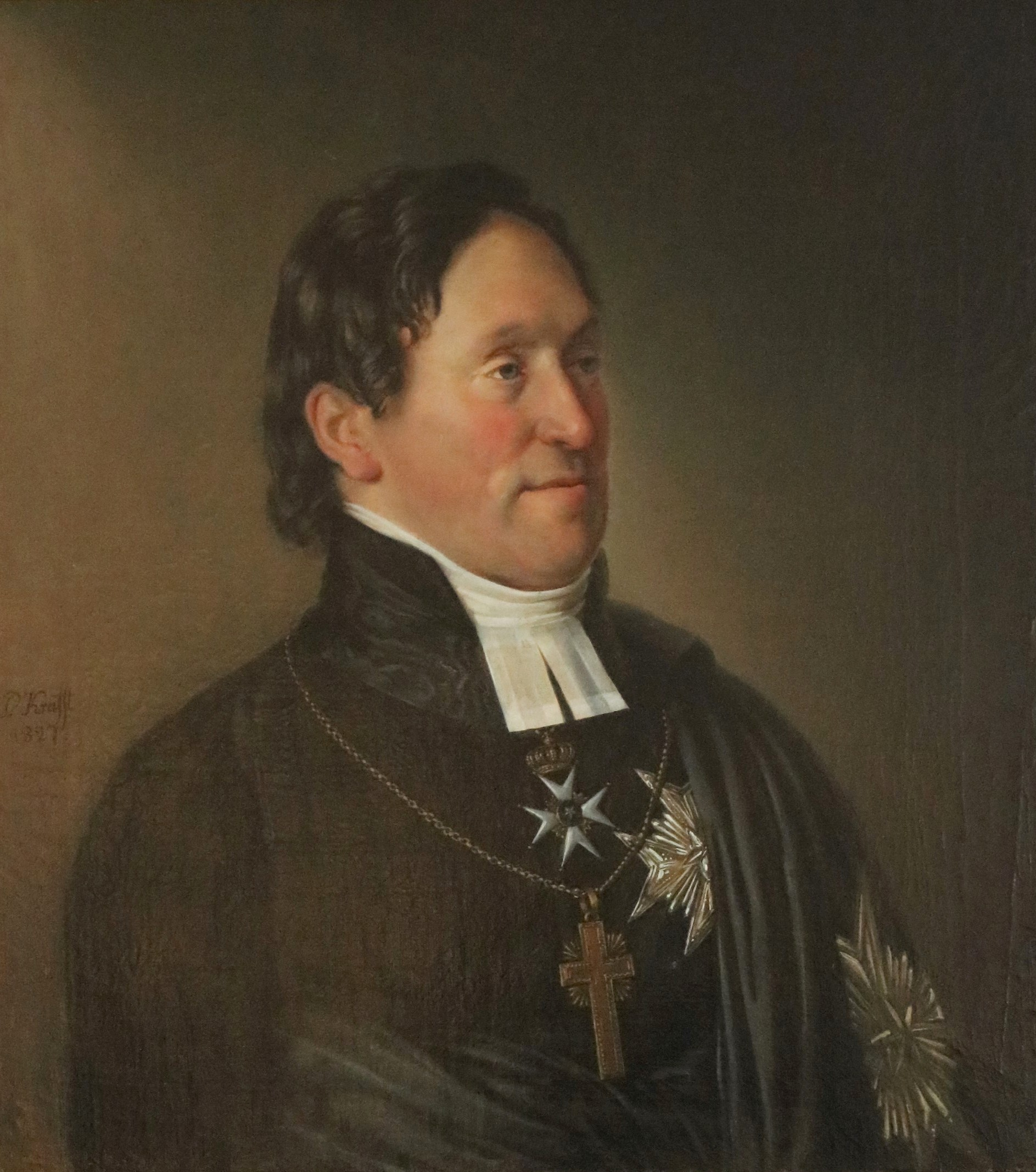 Carl Fredrik af Wingård (1781-1851), archbishop of Sweden. 1827 painting by Per Krafft the Younger